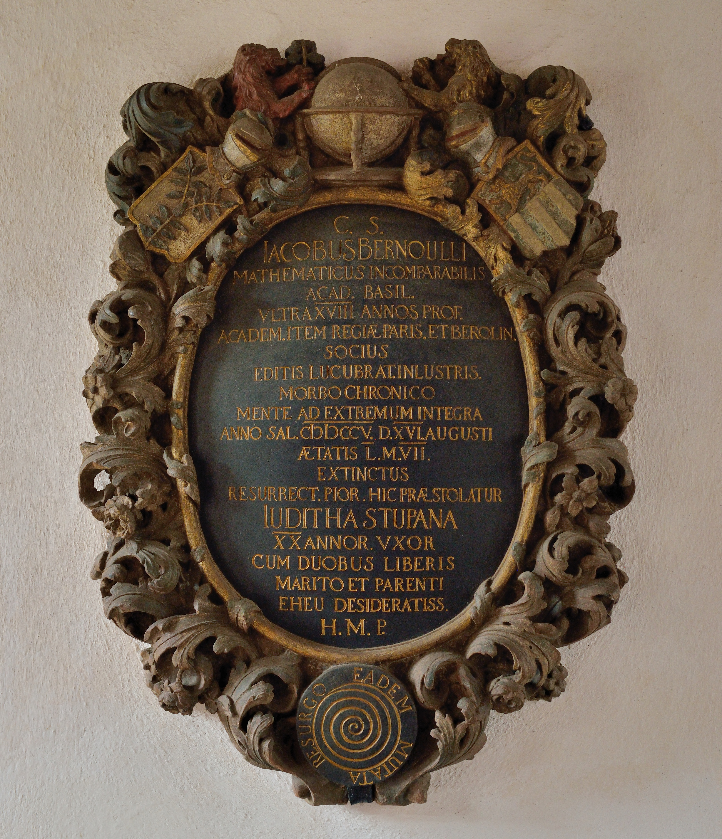 Jakob Bernoulli's epitaph, between great and small cloisters of Basel cathedral, by Johann Jakob Keller (1665–1747)